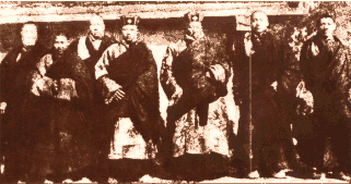 Jamgon Kongtrul Rinpoche, 4th Palpung Ongan Rinpoche, Dzigar Kongtrul Rinpoche, Rangjung Rigpe Dorje ( the 16th Karmapa), and Pema Wangchuk Gyalpo (the 11th Tai Situpa), Trého Rinpoche, and the 10th Pawo Rinpoche, Palpung Monastery, on the occasion of the 16th Karmapa's visit to Palpung Monastery in 1939